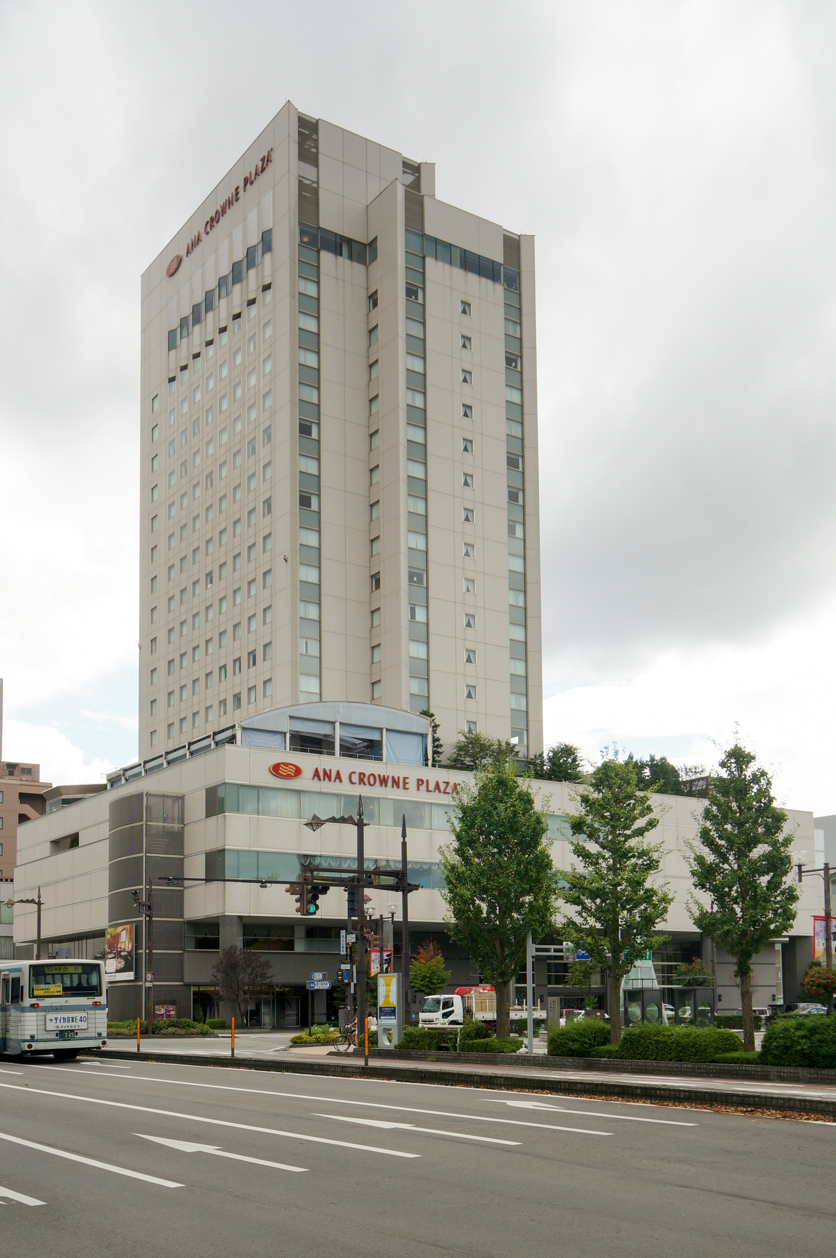 Photograph of the northeast side view of ANA Crowne Plaza Toyama in Toyama, Toyama Prefecture, Japan.